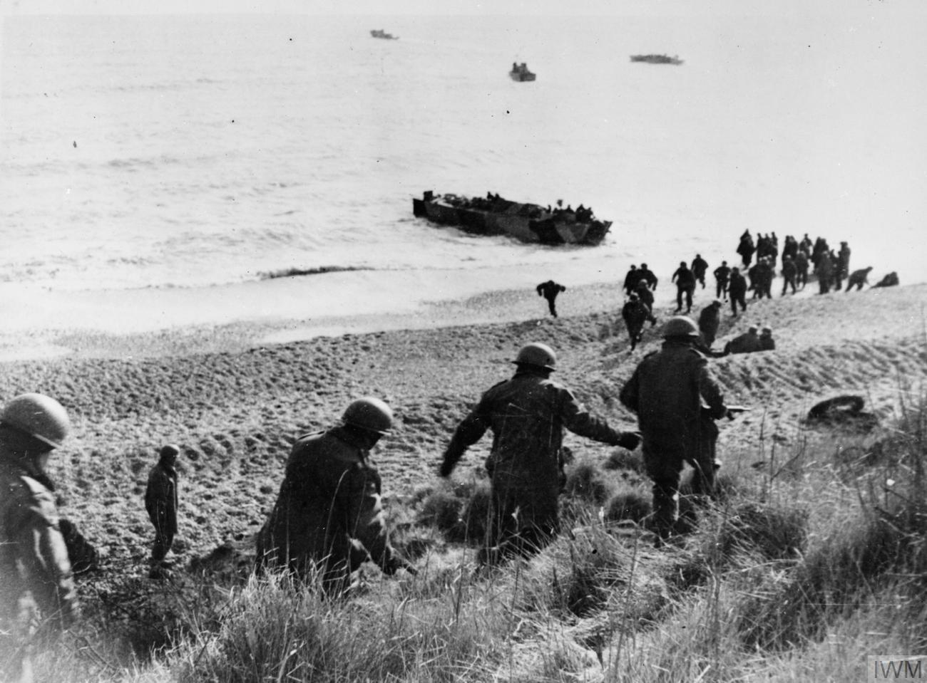 PREPARATIONS FOR OPERATION BITING: THE ATTACK ON A GERMAN RADAR INSTALLATION AT BRUNEVAL. Troops of the covering force and paratroopers practise their withdrawal to the landing craft during training in Britain.